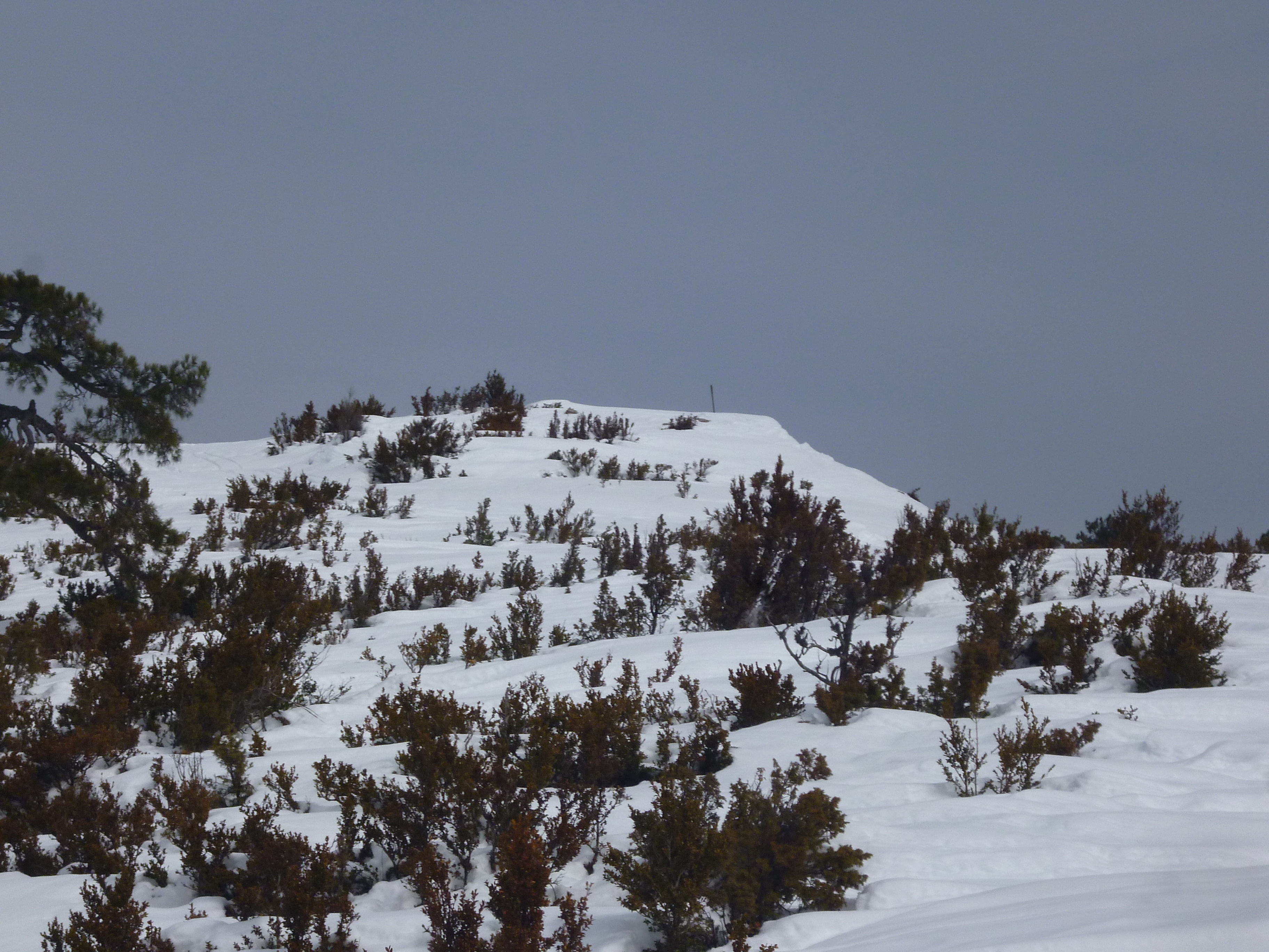 Summit of the King (1350mts)